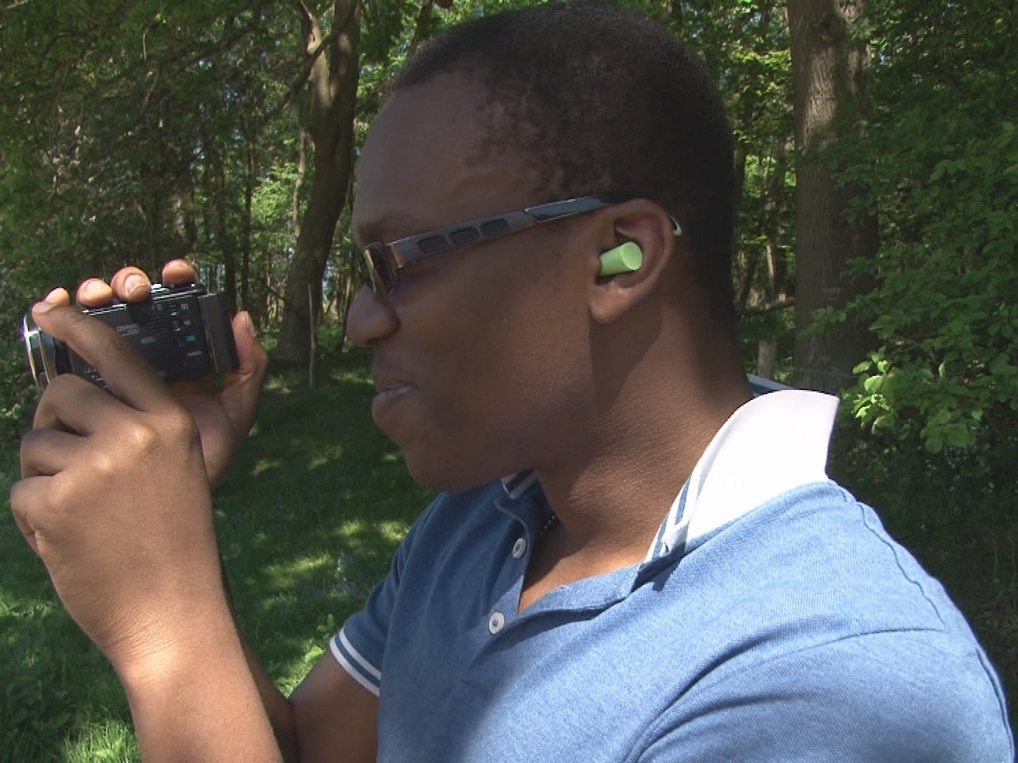 English YouTube personality KSIOlajidebt in 2012.